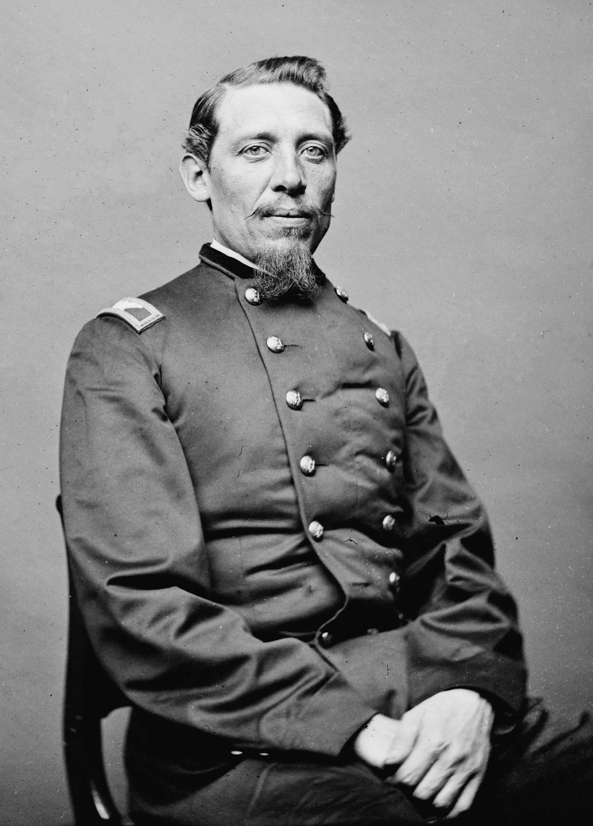 Picture of Col. Robert J. Betge (1824-1877)